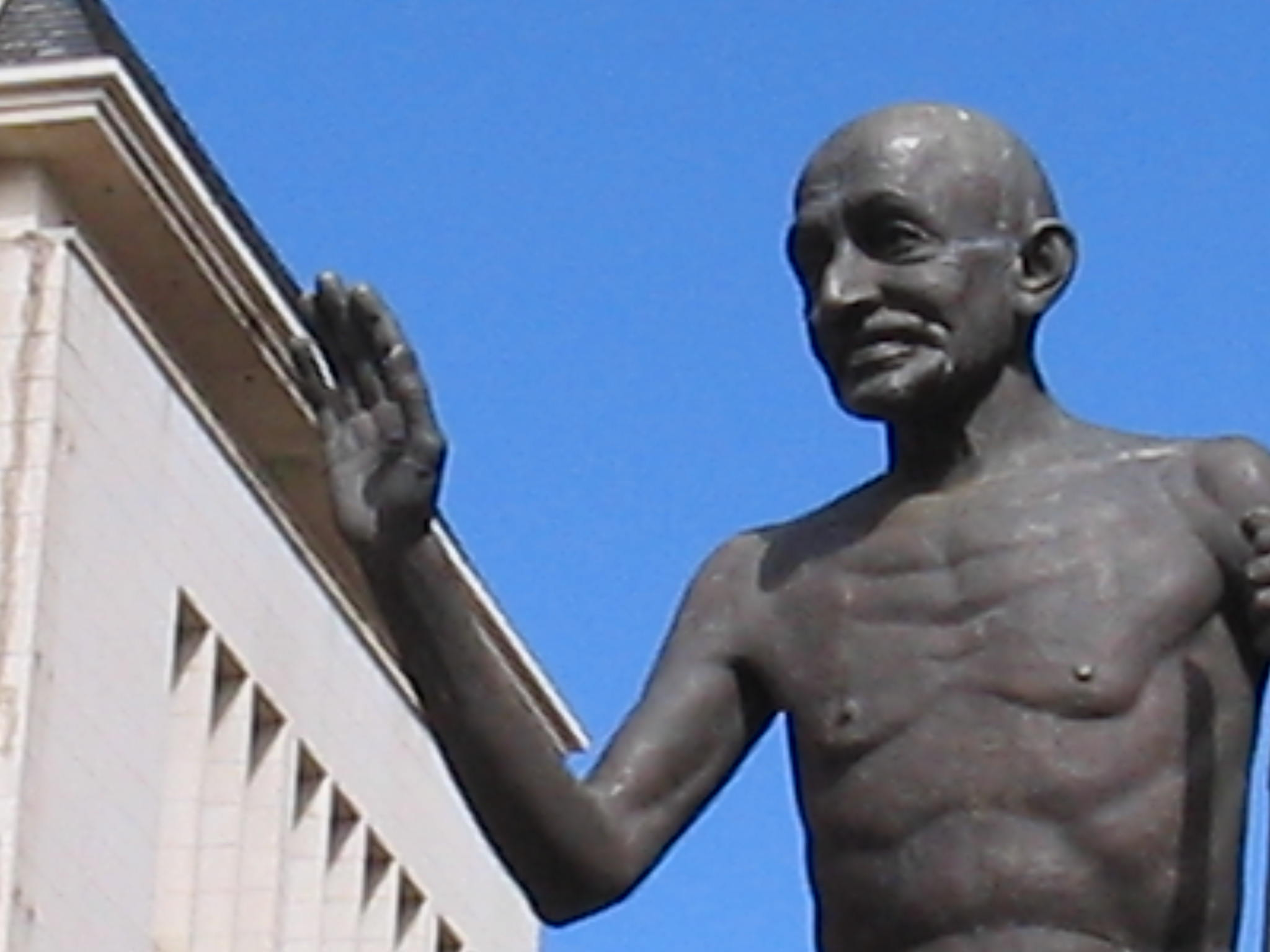 The centennial commemorative statue of Mahatma Gandhi in the center of downtown Pietermaritzburg, South Africa